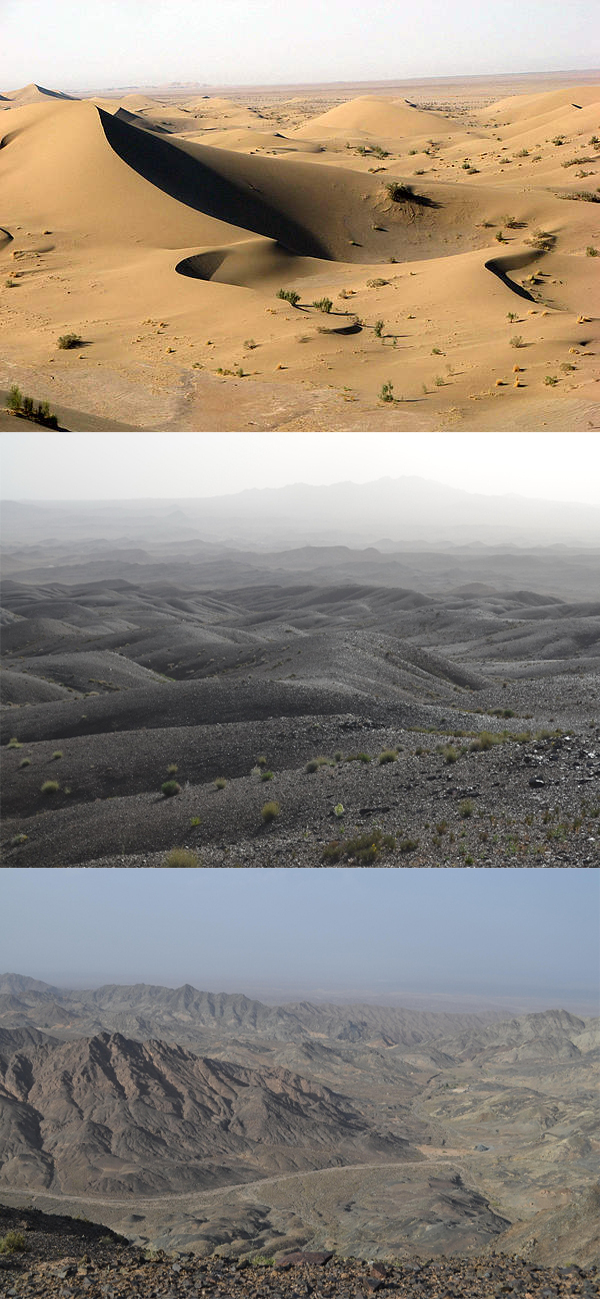 Desert and mountain around Na'in